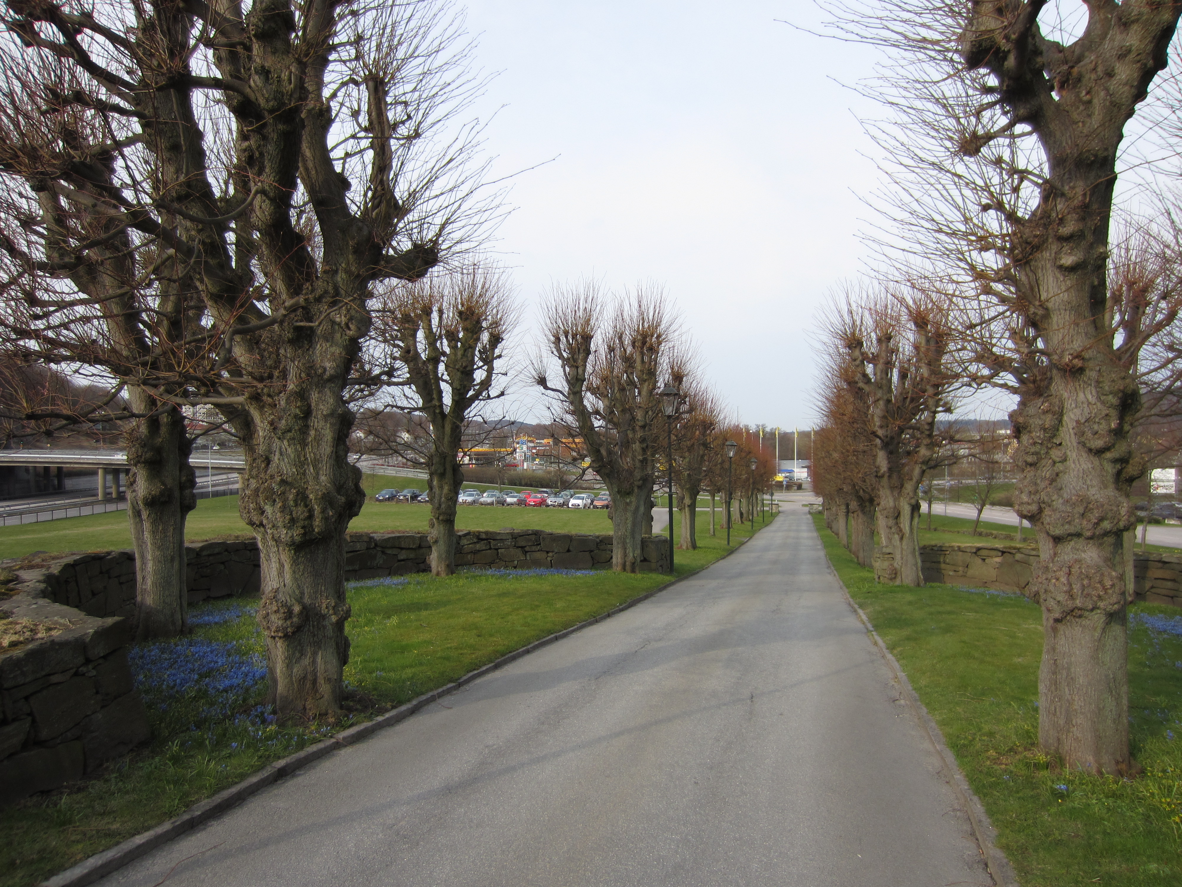 Carl Wilhelm Carlberg Avenue in direction for the Partille Manor.